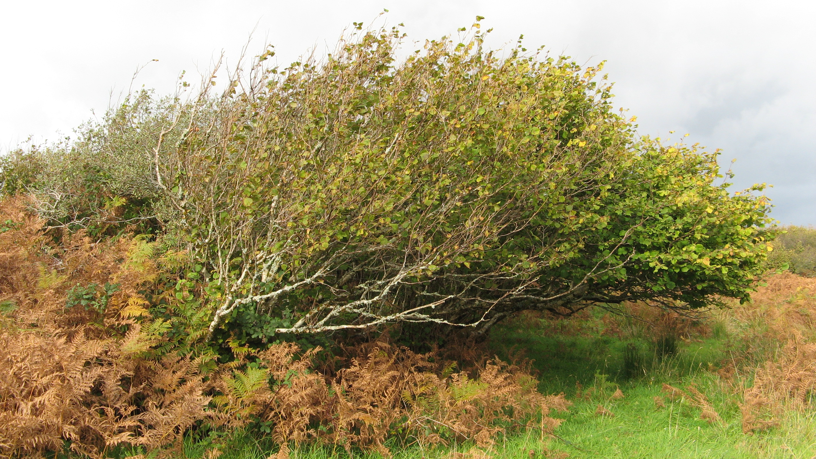 Exposed hazel stand at Ballachuan hazelwood, Seil Island, Scotland.